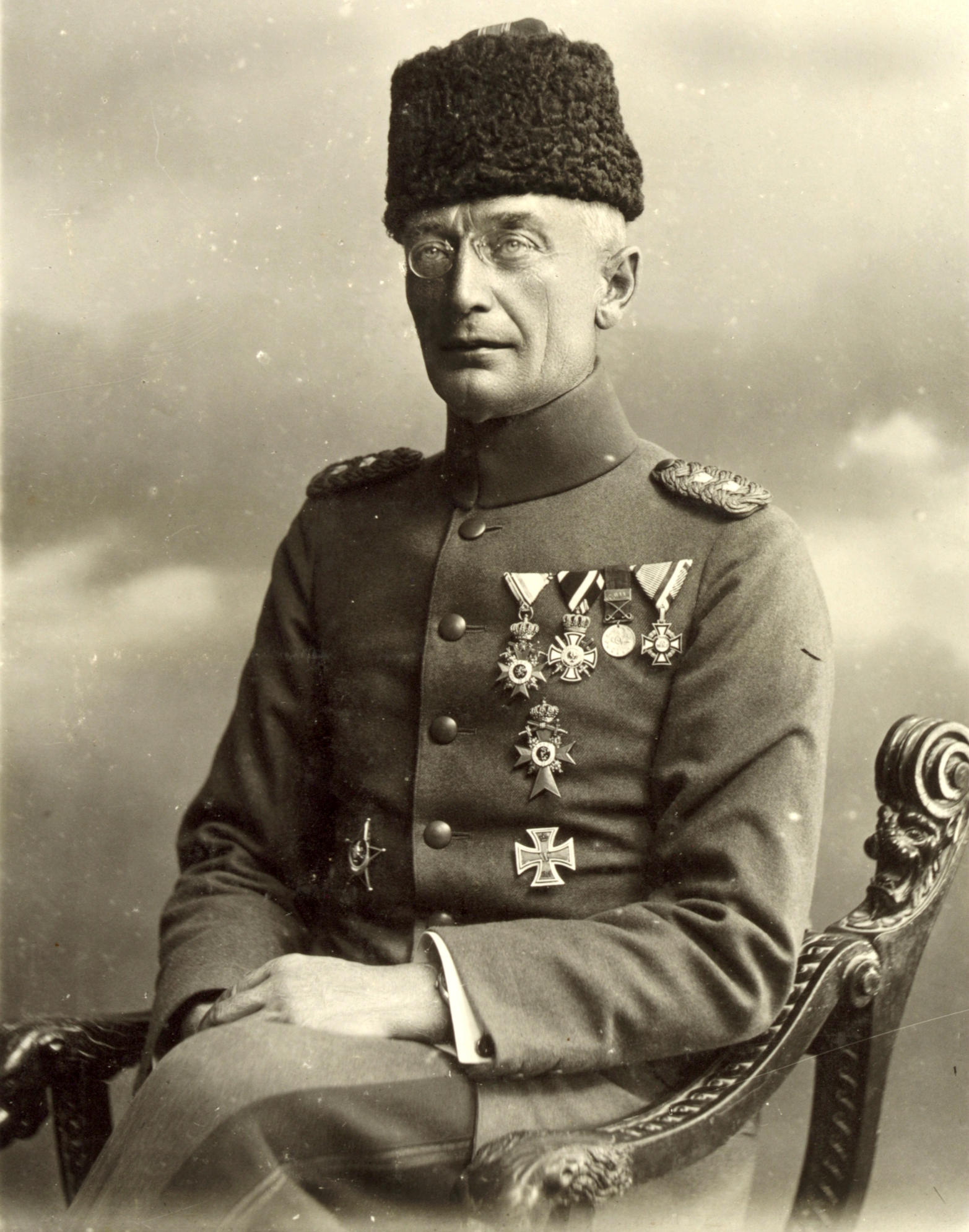 Kress von Kressenstein, 1916. Cropped image downloaded from the source listed below.